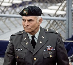 Colonel Charlie Beckwith in 1980.